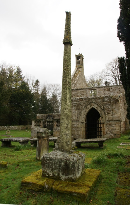 St Peter's Kirk, Duffus, Scotland - Cross, 14th century